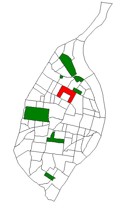 Map of St. Louis Neighborhood #56 (The Greater Ville)